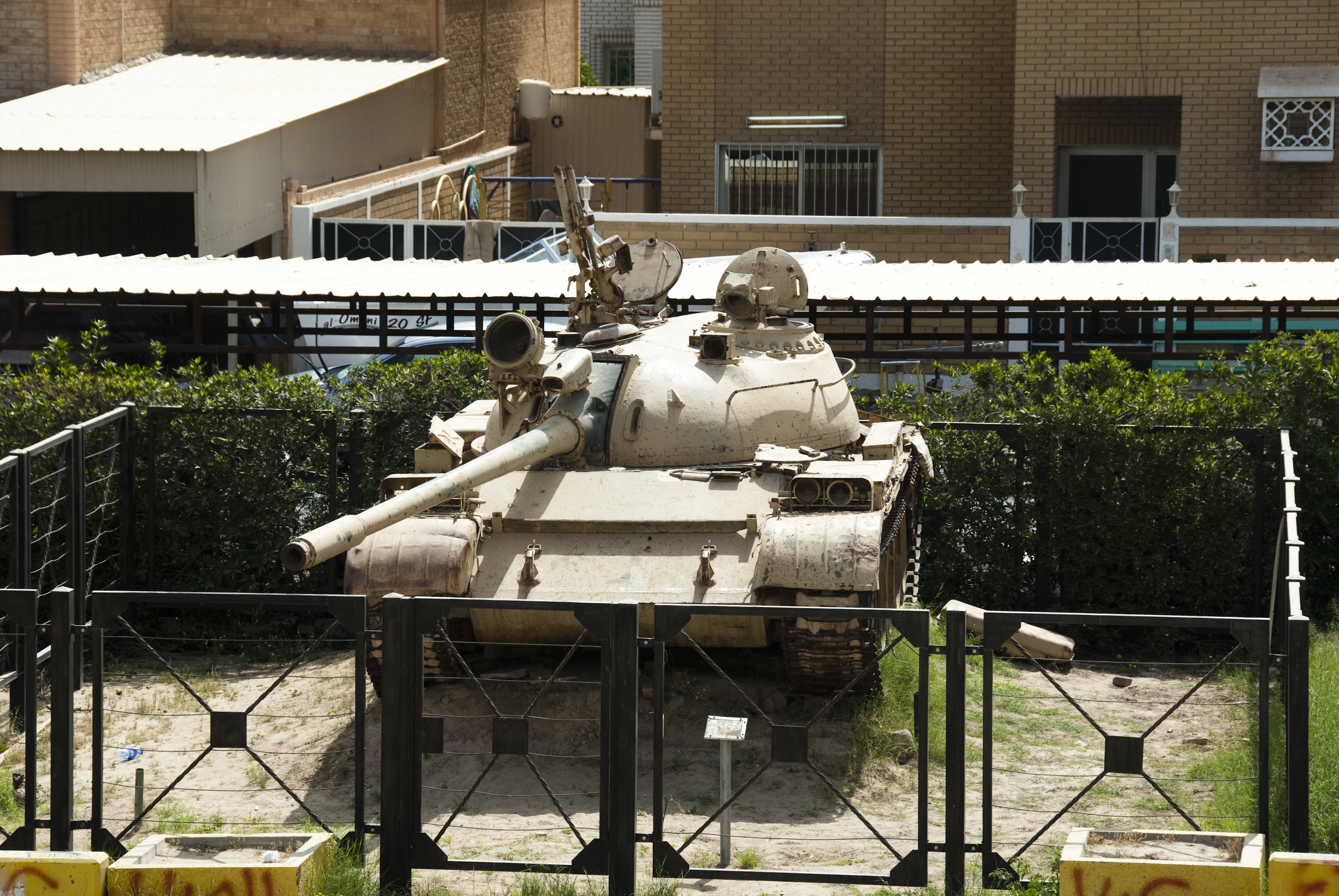 An Iraqi tank on display at the site of the Al-Qurain Martyrdom, Kuwait.